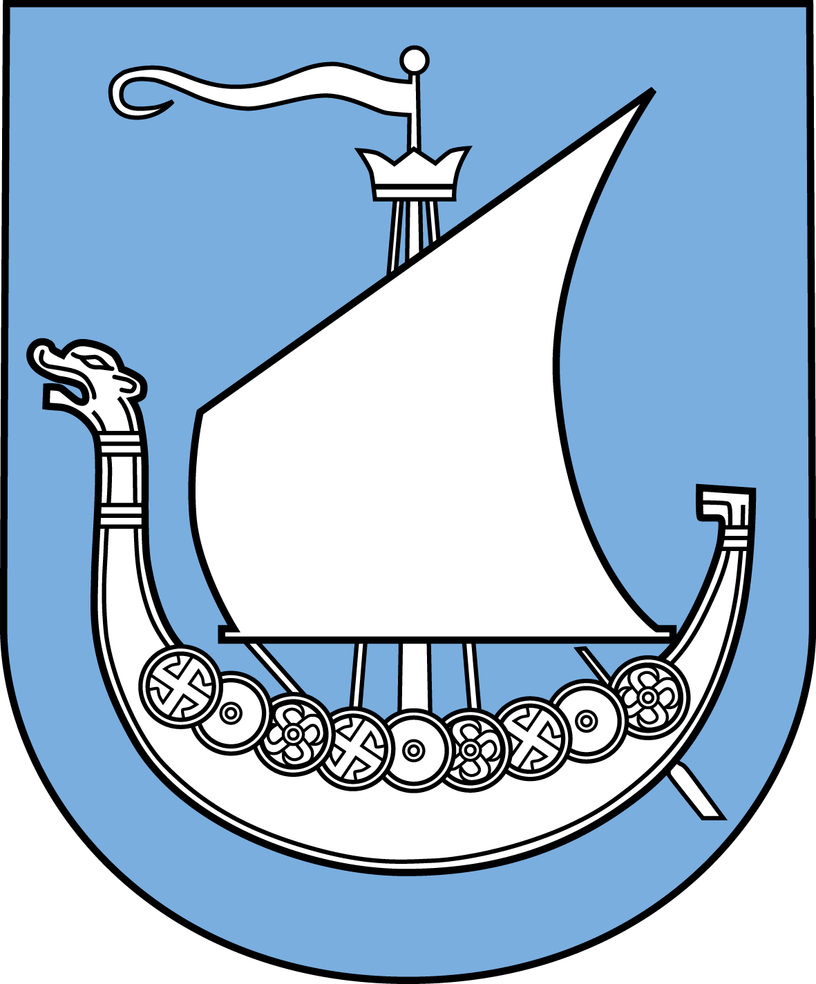 Gotenhafen - coat of arms during nazi-german occupation.